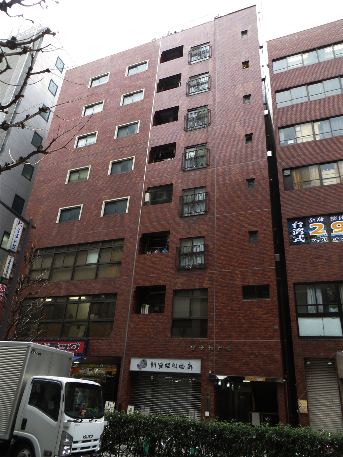 Shinjuku Tanaka Bldg.